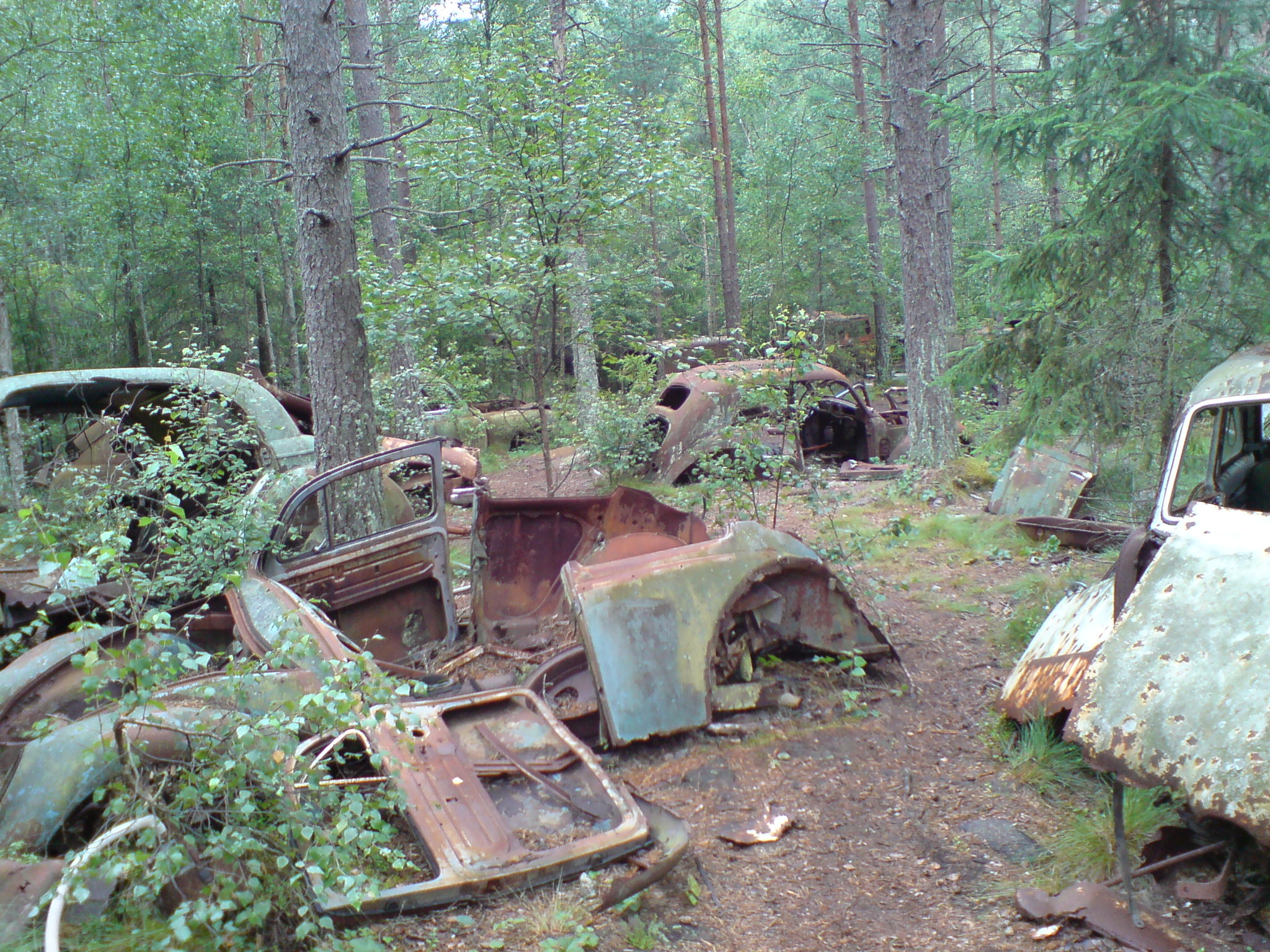 Decaying automobile wrecks in the abandoned junk yard at Kyrkö mosse, south of Tingsryd, Sweden.